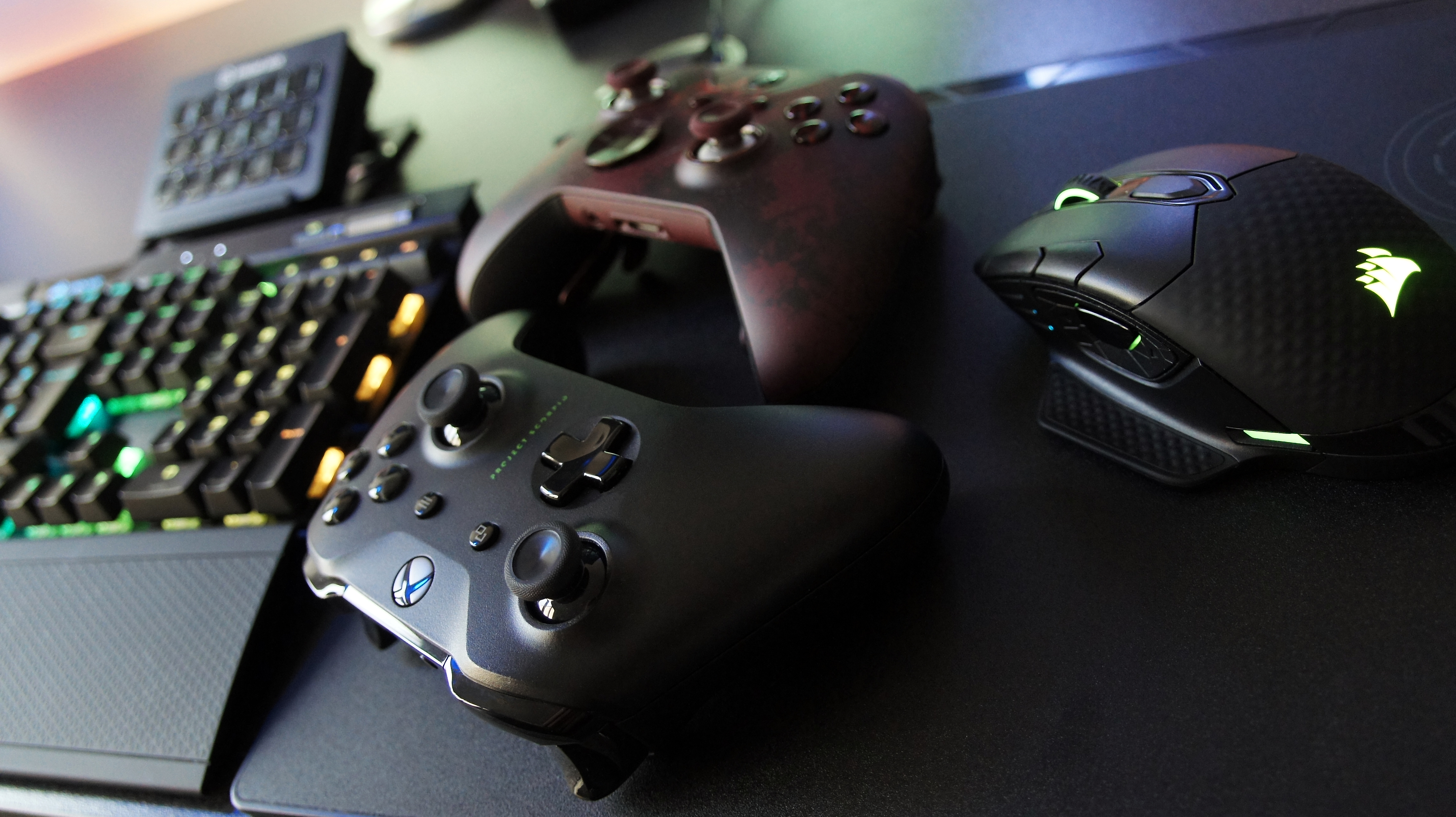 Gaming peripherals. Xbox One Elite and Project Scorpio gamepads, Corsair keyboard and mouse.